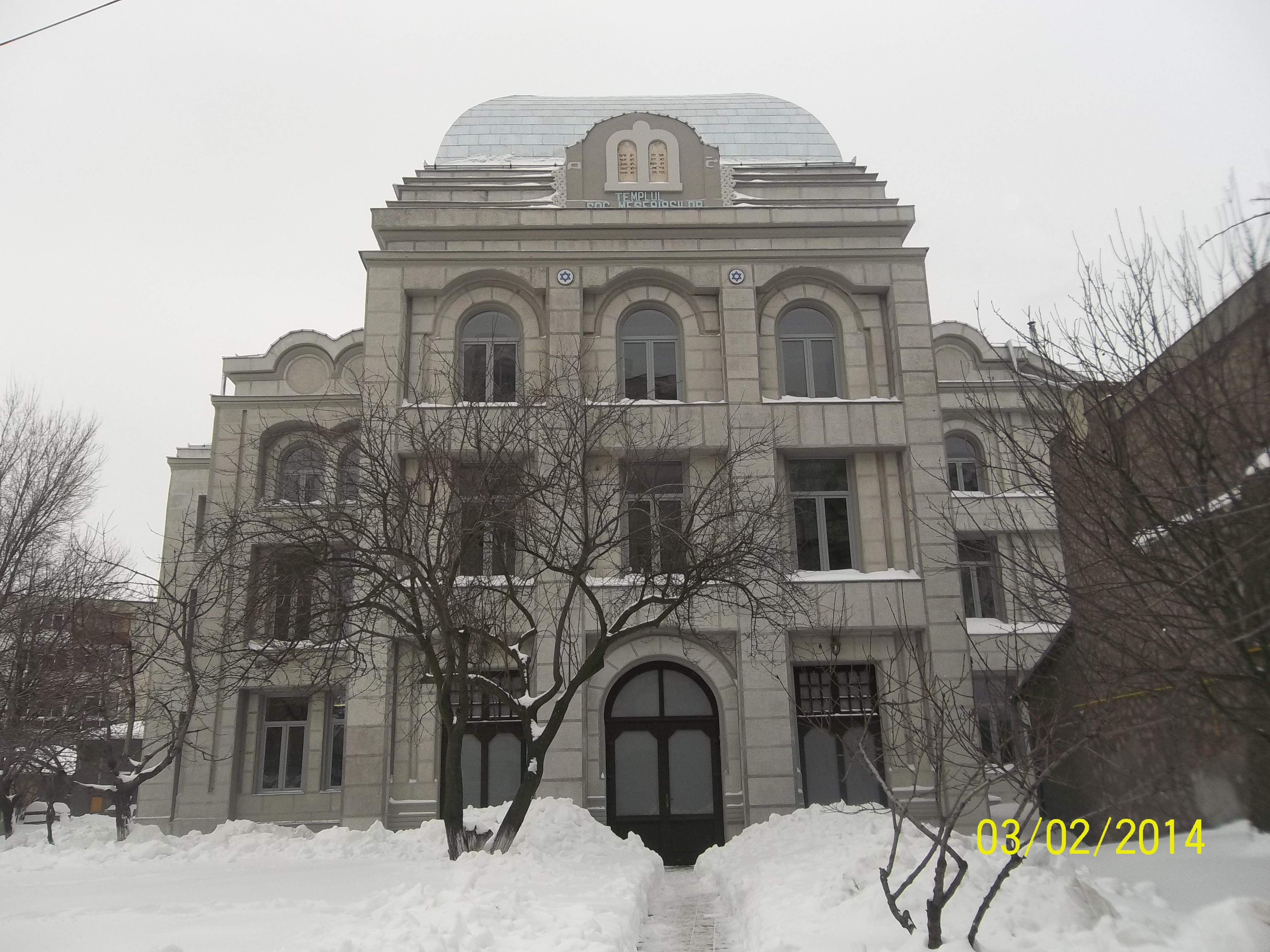 Jewish Synagogue, Galati, Galatz, Romania in the winter, The Temple was built in 1875. Re-inaugurated in the spring of the year 2014.